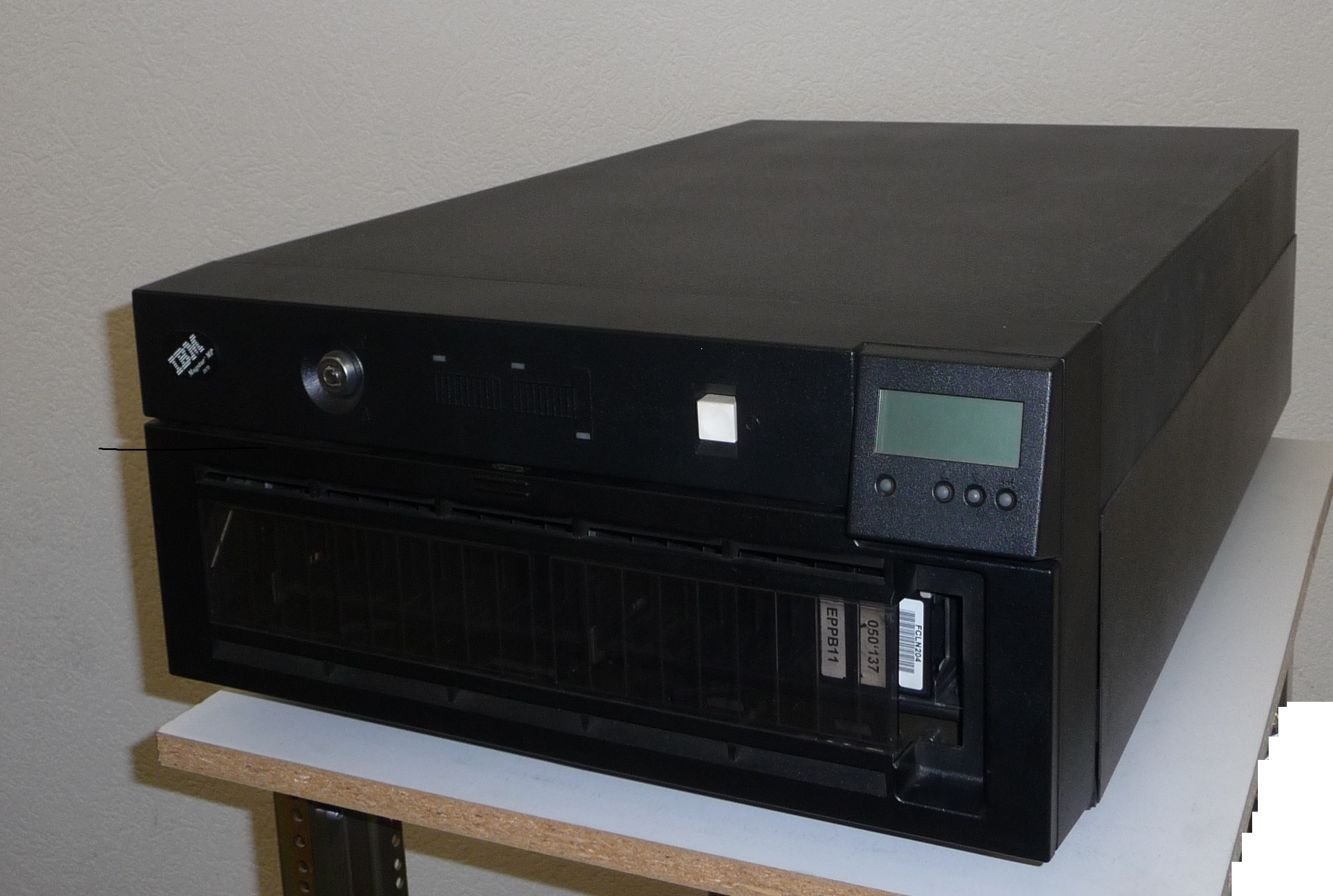 IBM Magstar 3570 tape library